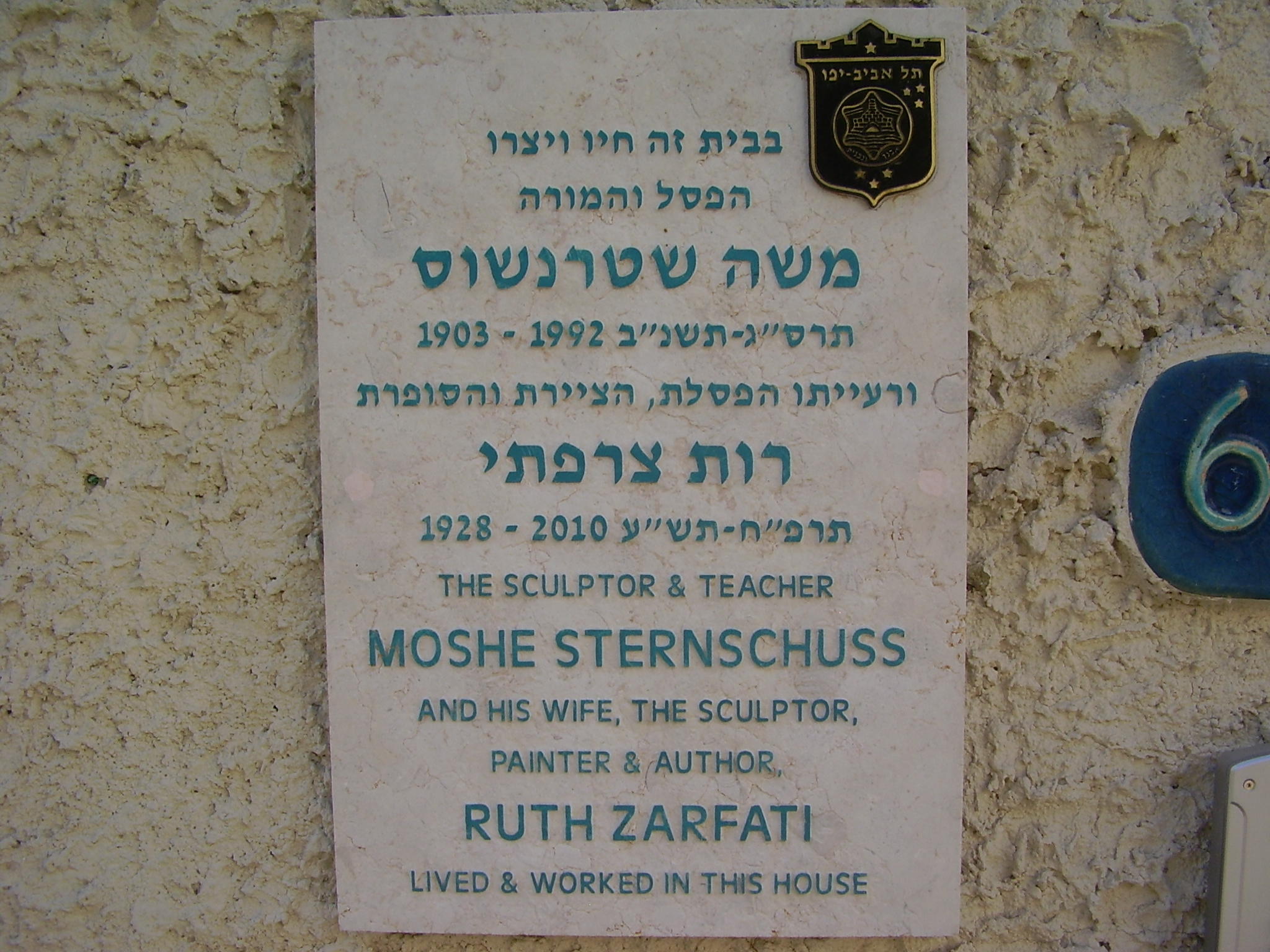 memorial plaque to the sculptor moshe sternschuss and his wife ruth zarfati in tel aviv לוחית זיכרון לפסל משה שטרנשוס ולאשתו הפסלת רות צרפתי, על ביתם ברח' בירנבוים 6 בתל אביב